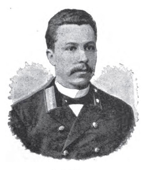 Mikhail Botov (1859-1889). Architect of Baku.